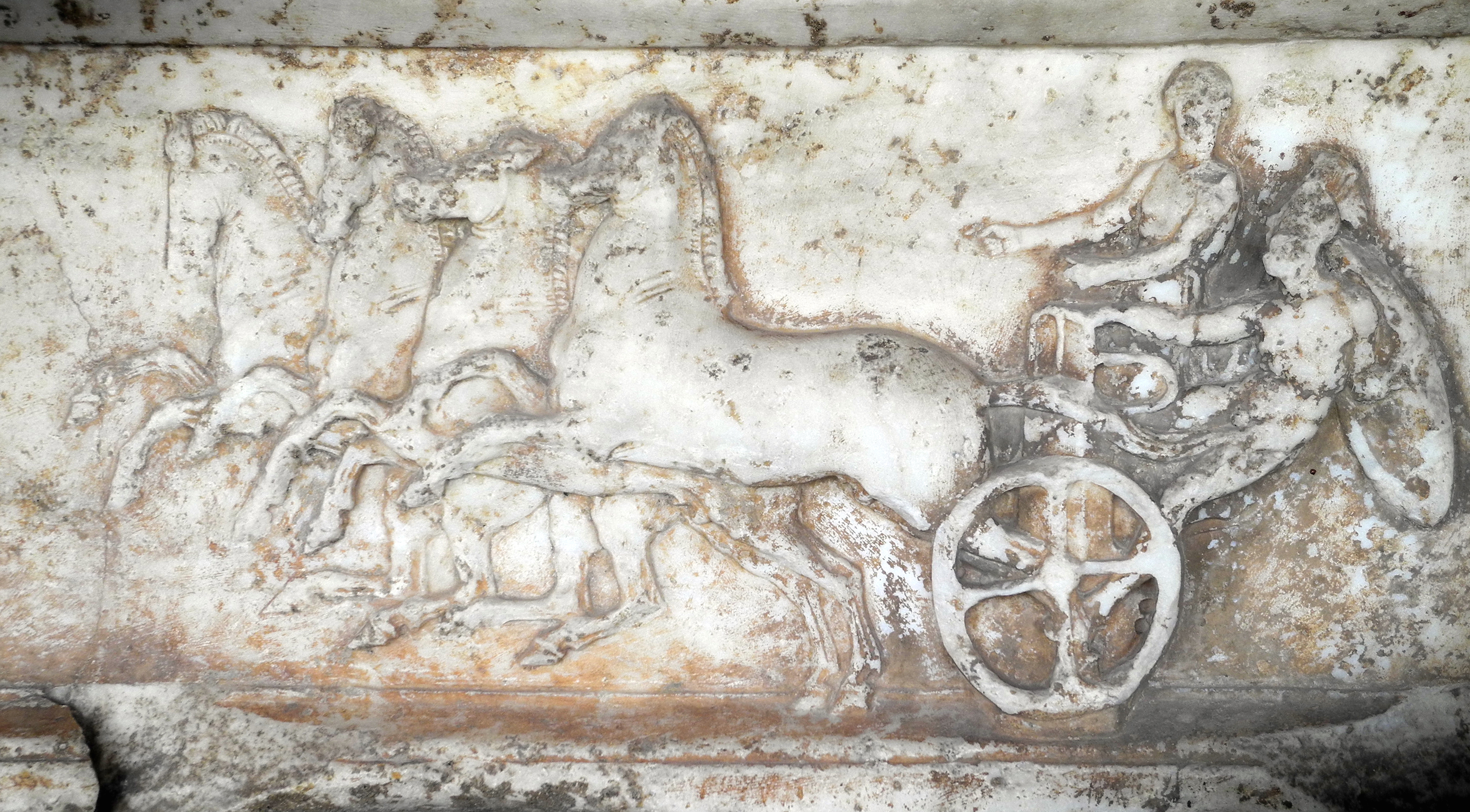 Chariot relief in the Ancient Agora Museum. Athens, Attica, Greece